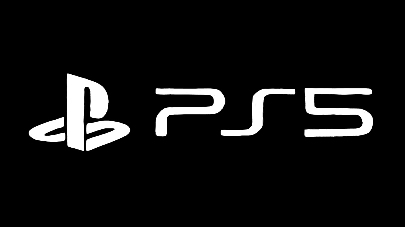 This is the Ps5 logo